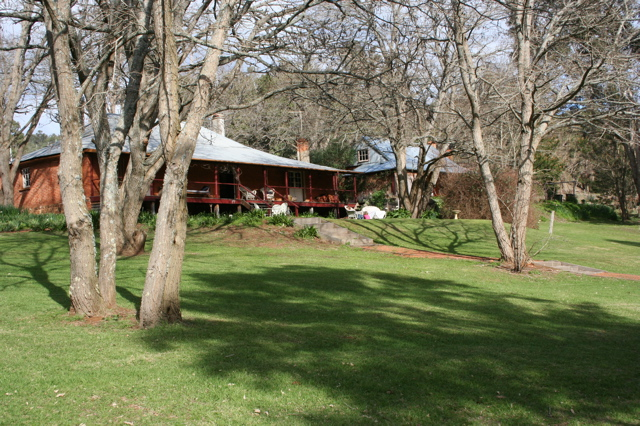 Riverside view of Southampton Homestead